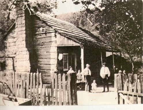 This is the Albert Dingess log cabin.